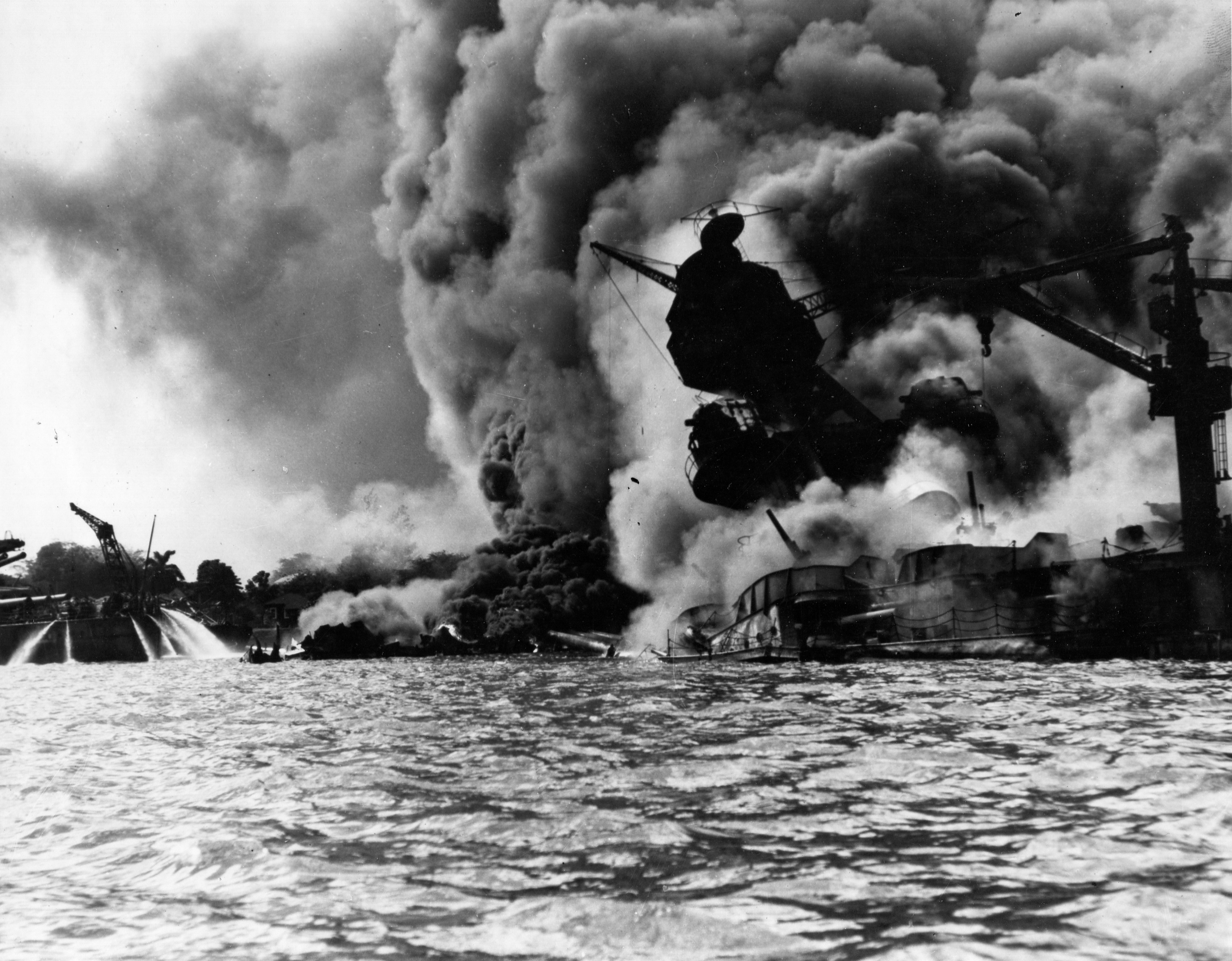 USS Arizona (BB-39) sunk and burning furiously, 7 December 1941. Her forward magazines had exploded when she was hit by a Japanese bomb. At left, men on the stern of USS Tennessee (BB-43) are playing fire hoses on the water to force burning oil away from their ship Official U.S. Navy Photograph, now in the collections of the National Archives.